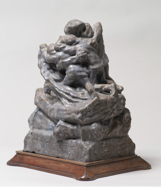 Niels Hansen Jacobsen (1861-1941), Skitse til ikke udfoert monument for polarforskerne Mylius Erichsen, P. Hoeeg Hagen og Joergen Broendlund, 1910-1911